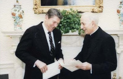 Pio Laghi visits with Ronald Reagan in the Oval Office.